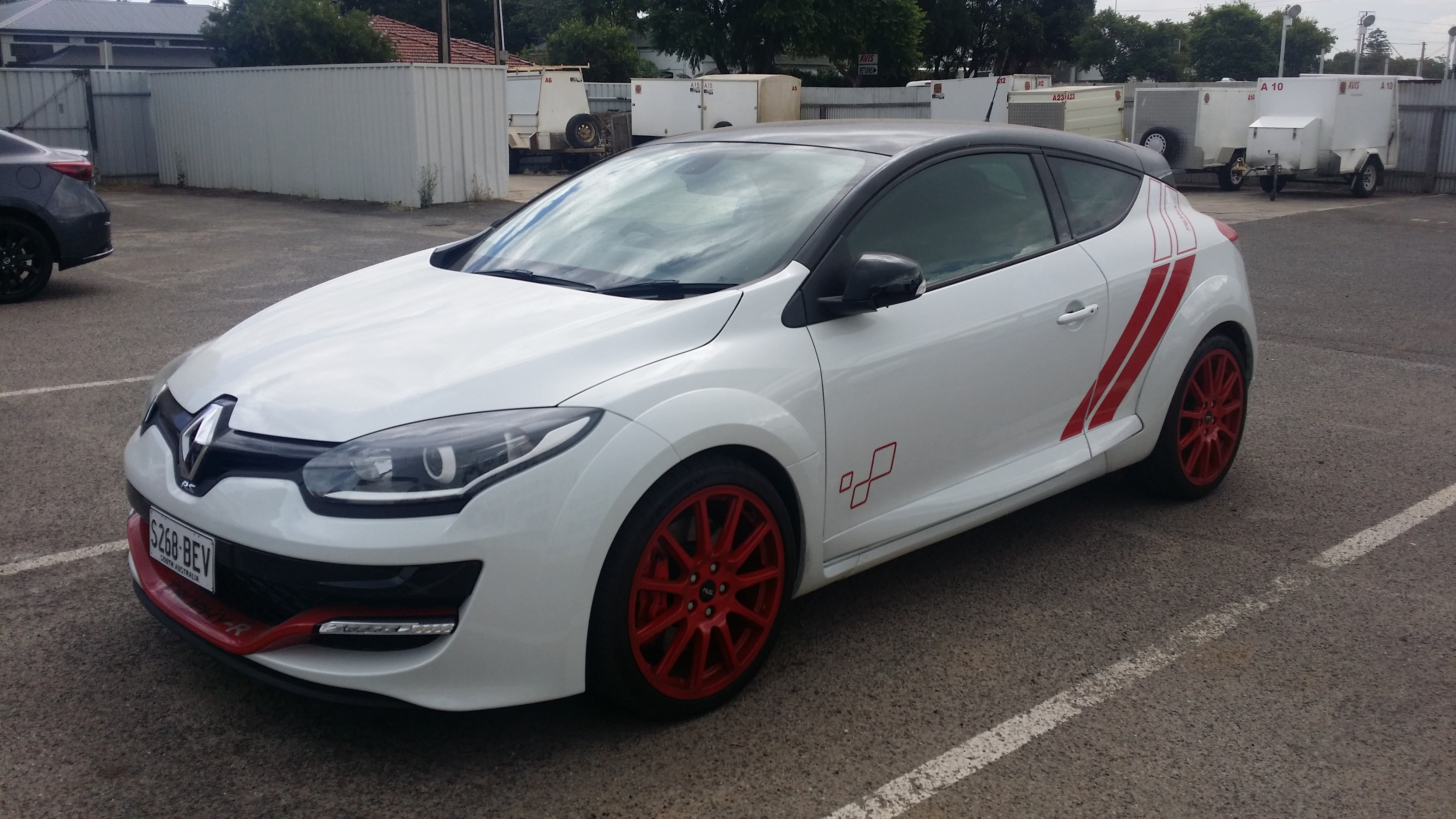 This was traded in a week ago! 250 of them were built world wide and 50 were allocated to Australia, all were sold in 2 months!! This had been sitting in the owners garage for the last 8 months and had only done 360km!! These retailed for $67,000AUD on the road here.